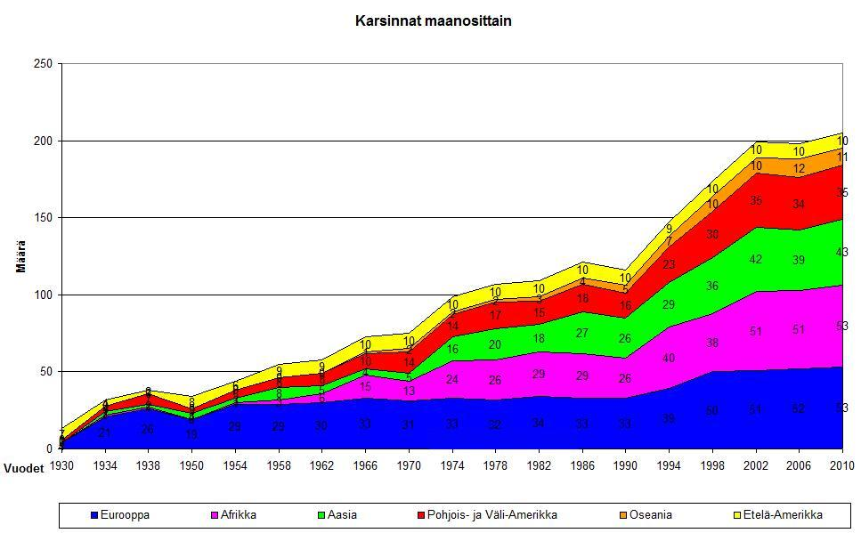 A diagram of the number of gualifying countries in FIFA World Cup.